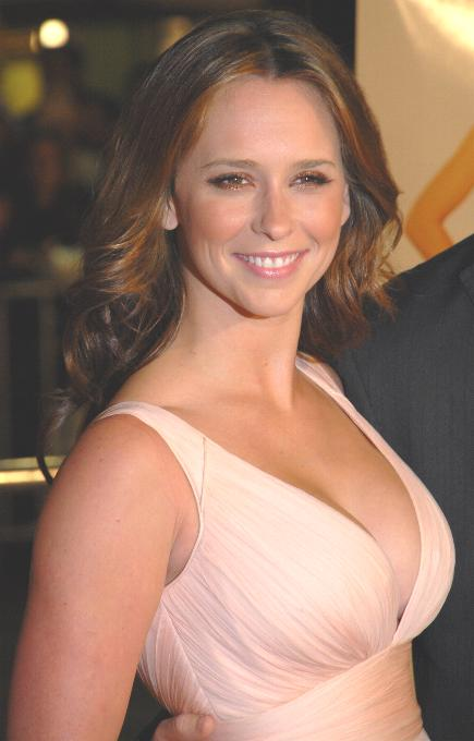 Actress Jennifer Love Hewitt at the premiere of "27 Dresses"